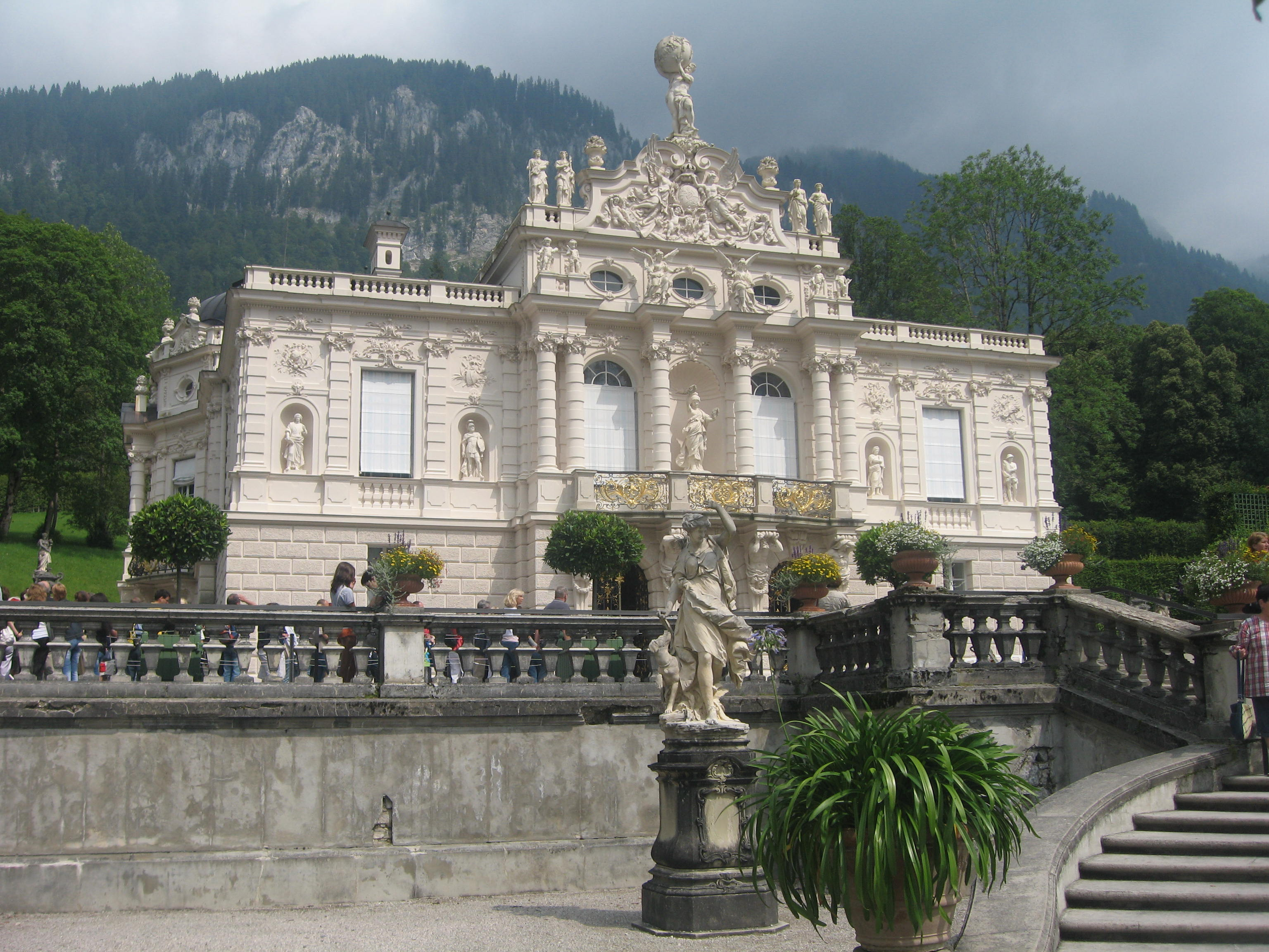 Linderhof Castle, Germany